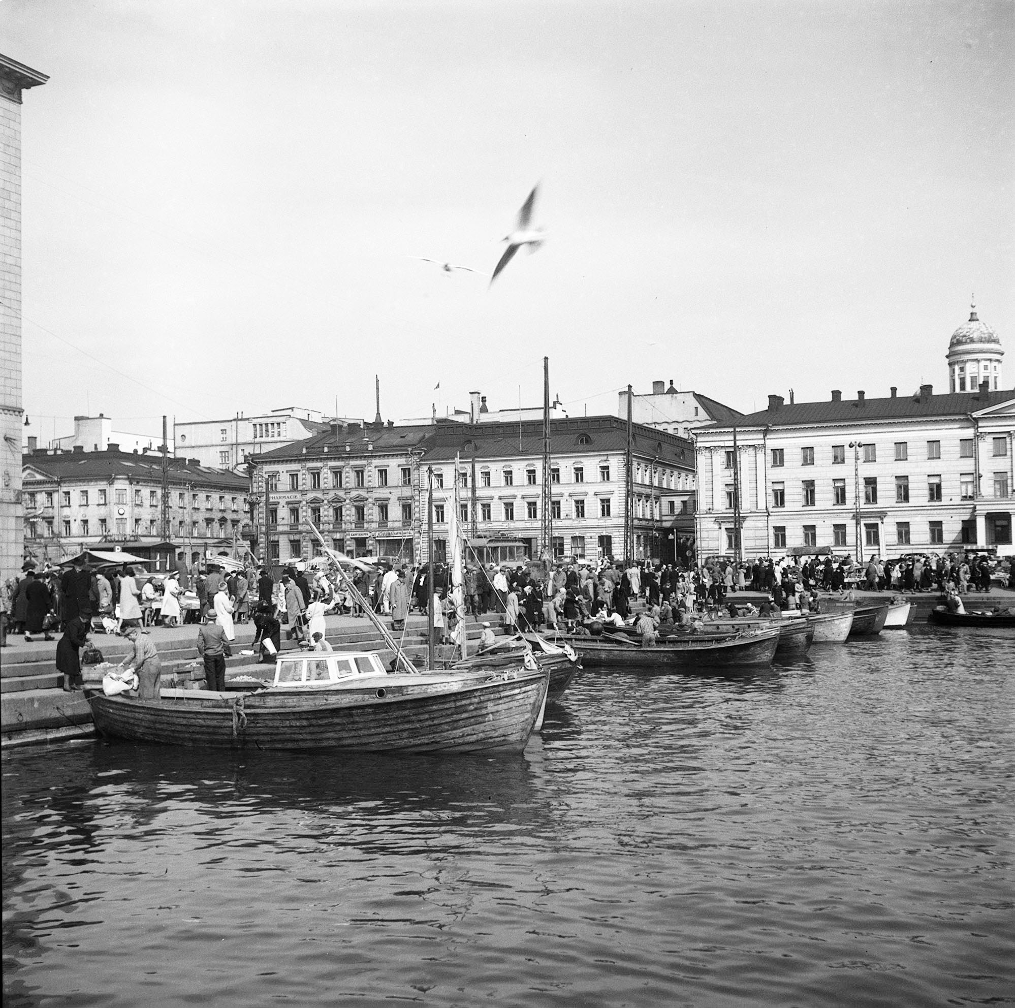 Helsinki, Kauppatori 1.5.1948, kalastajien veneitä. Photo: Nokelainen/Yle. Tiedätkö jotain tästä kuvasta? Jätä kommentti tai ota yhteyttä sähköpostitse: Tutustu Ylen arkistosisältöihin: Fler skatter från Yles arkiv: More about Yle, the Finnish Broadcasting Company